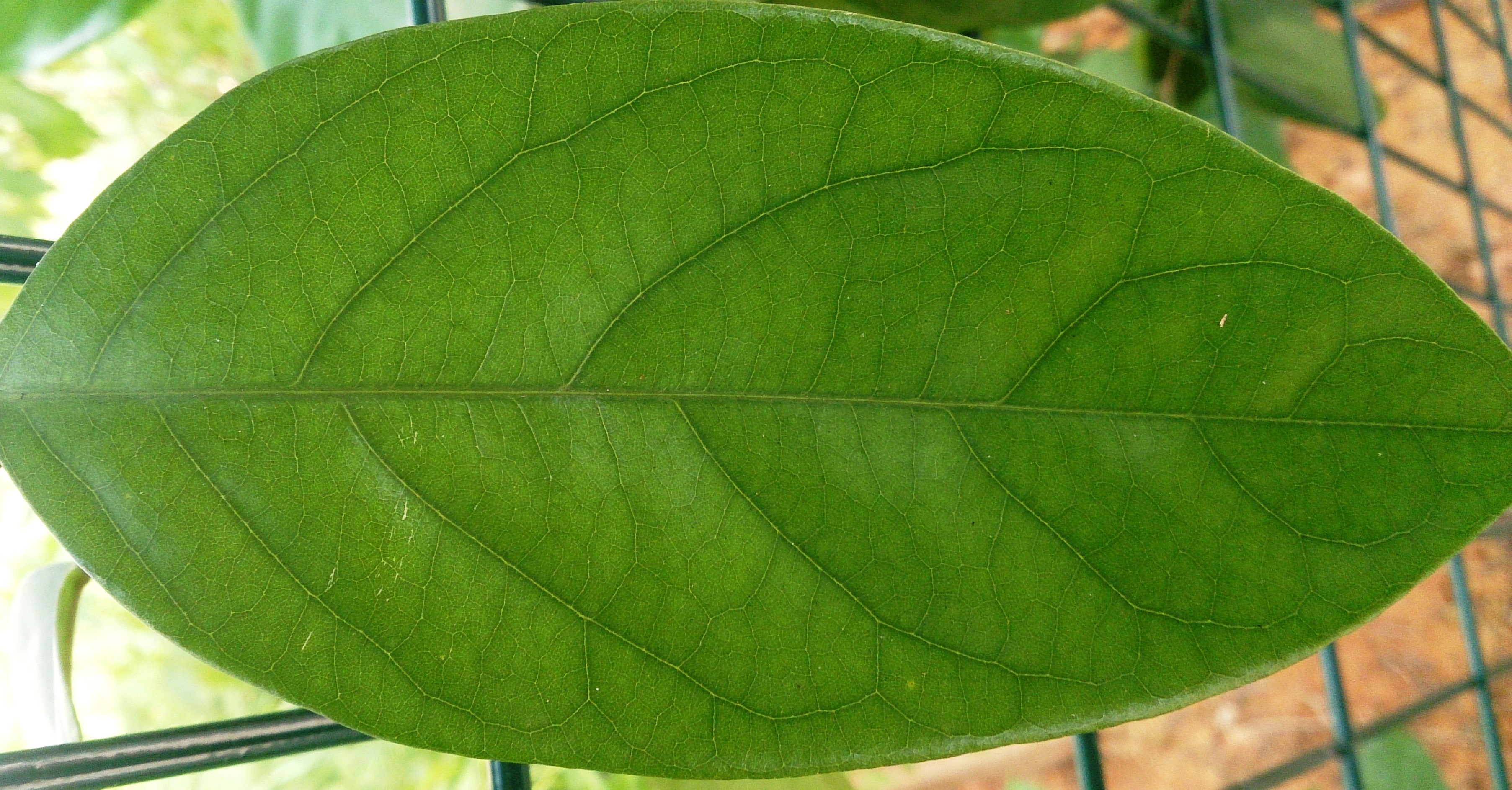 Baphia nitida